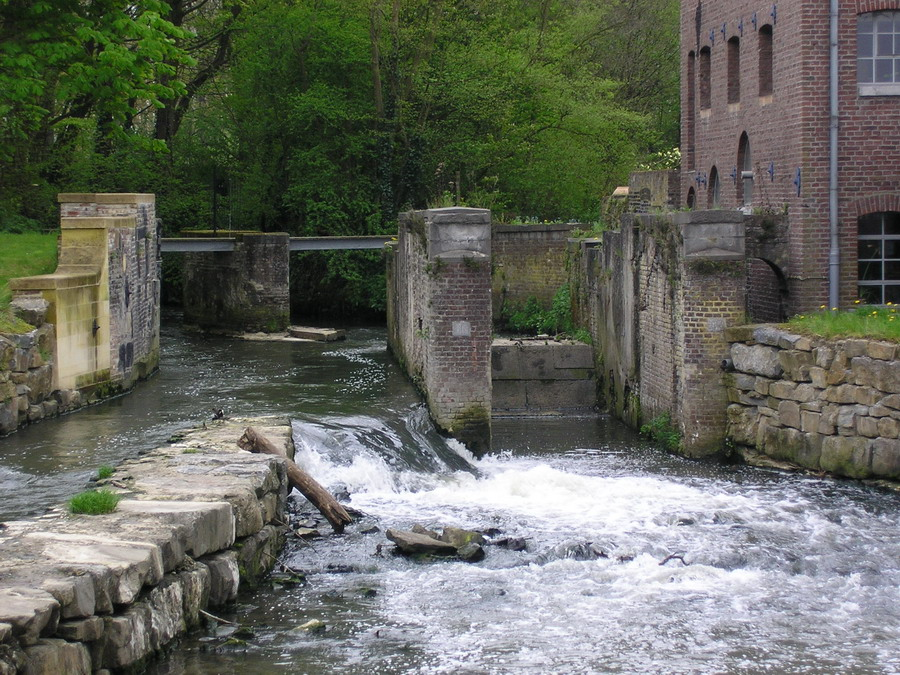 Maastricht, the Netherlands. View of the river Jeker near Nekummermolen.